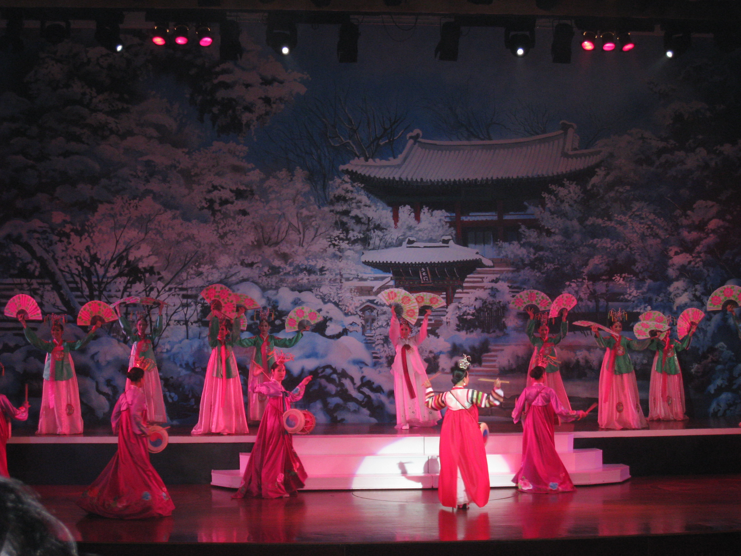 A Korean dance shown by transexual artists in Alkazar, Pattaya